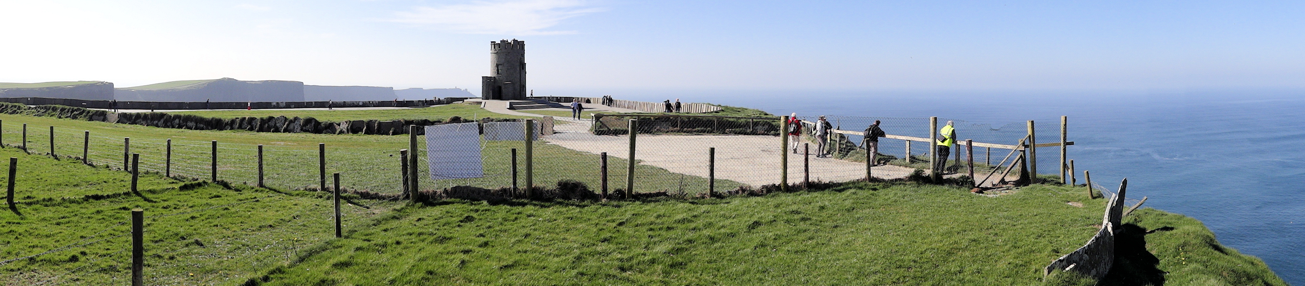 O'Brien's Tower is the highest point along the Cliffs of Moher. There's no charge to enter the plateau, but there is a charge to climb the tower. Despite the free entrance, the plateau is fenced off, to discourage people from hiking along the edge of the cliffs, although there's a really nice trail there.